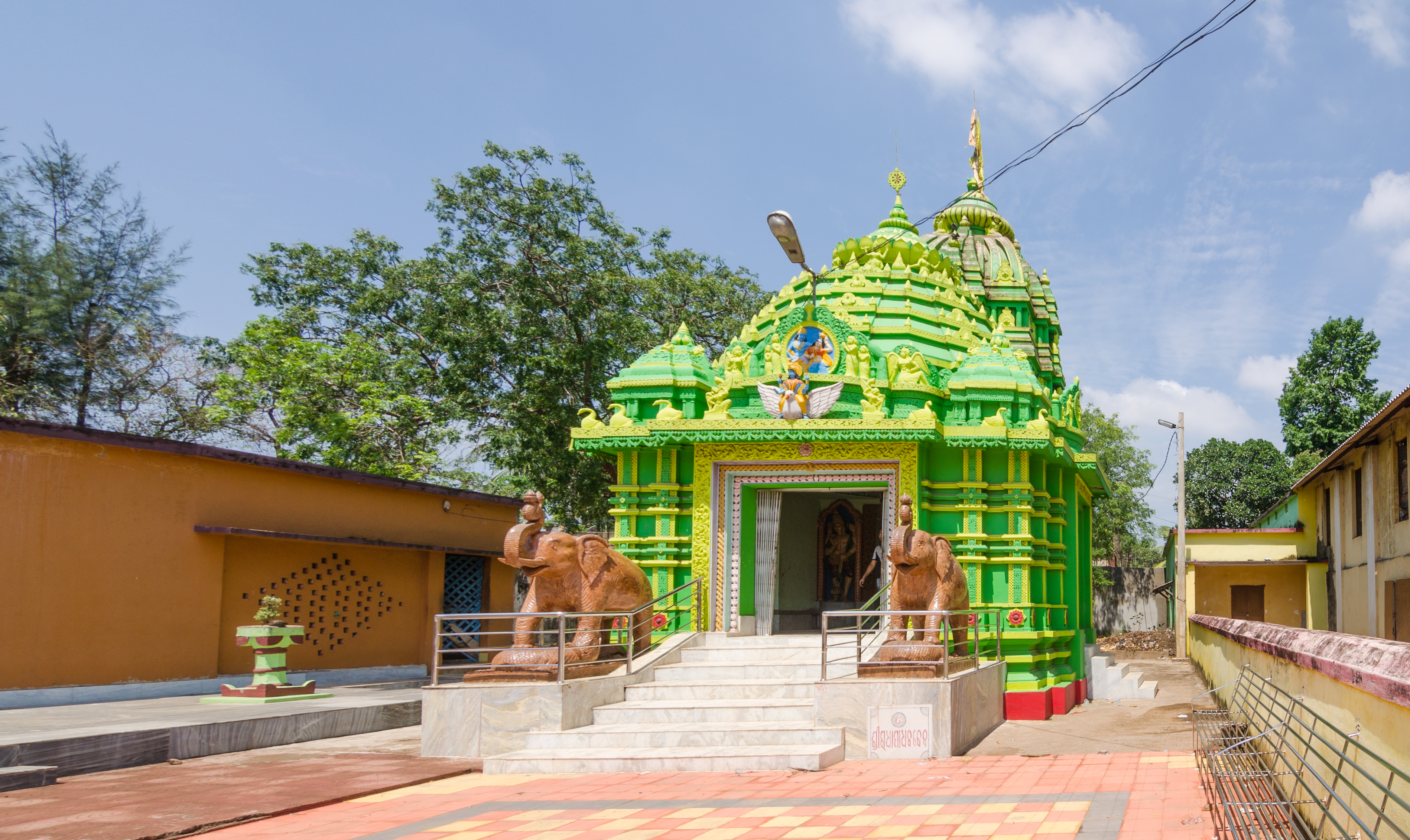 Radhamadhavdev Temple inside Damanei Temple complex, Jatani